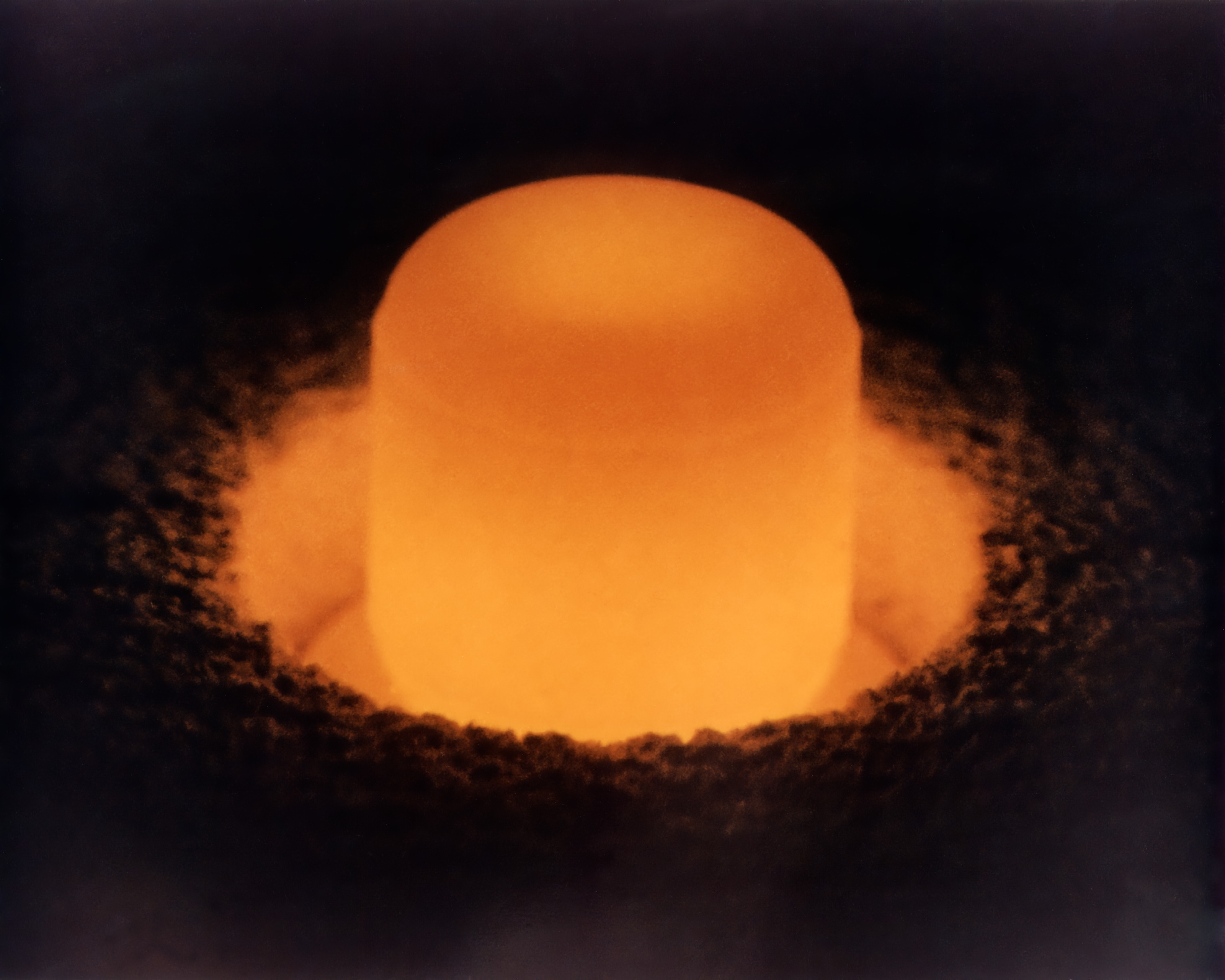 "Plutonium-238 sphere under its own light." These pellets are used for radioisotope thermoelectric generators. They are made of PuO2 Image is courtesy the Department of Energy. Image ID 2006407 at (search for plutonium AND light) ==